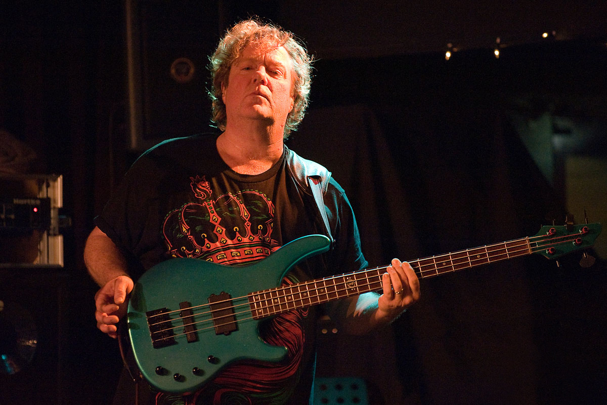 Stuart 'Stu' Hamm performing with the Carl Verheyen Band during the Mustang Run Tour at Paradox in Tilburg (November 16., 2013)